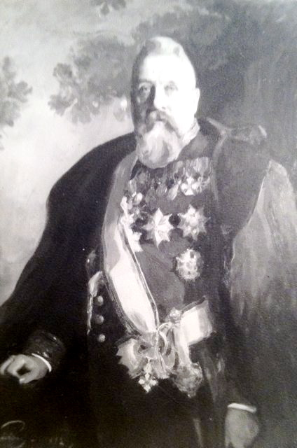 Alfred Orban de Xivry